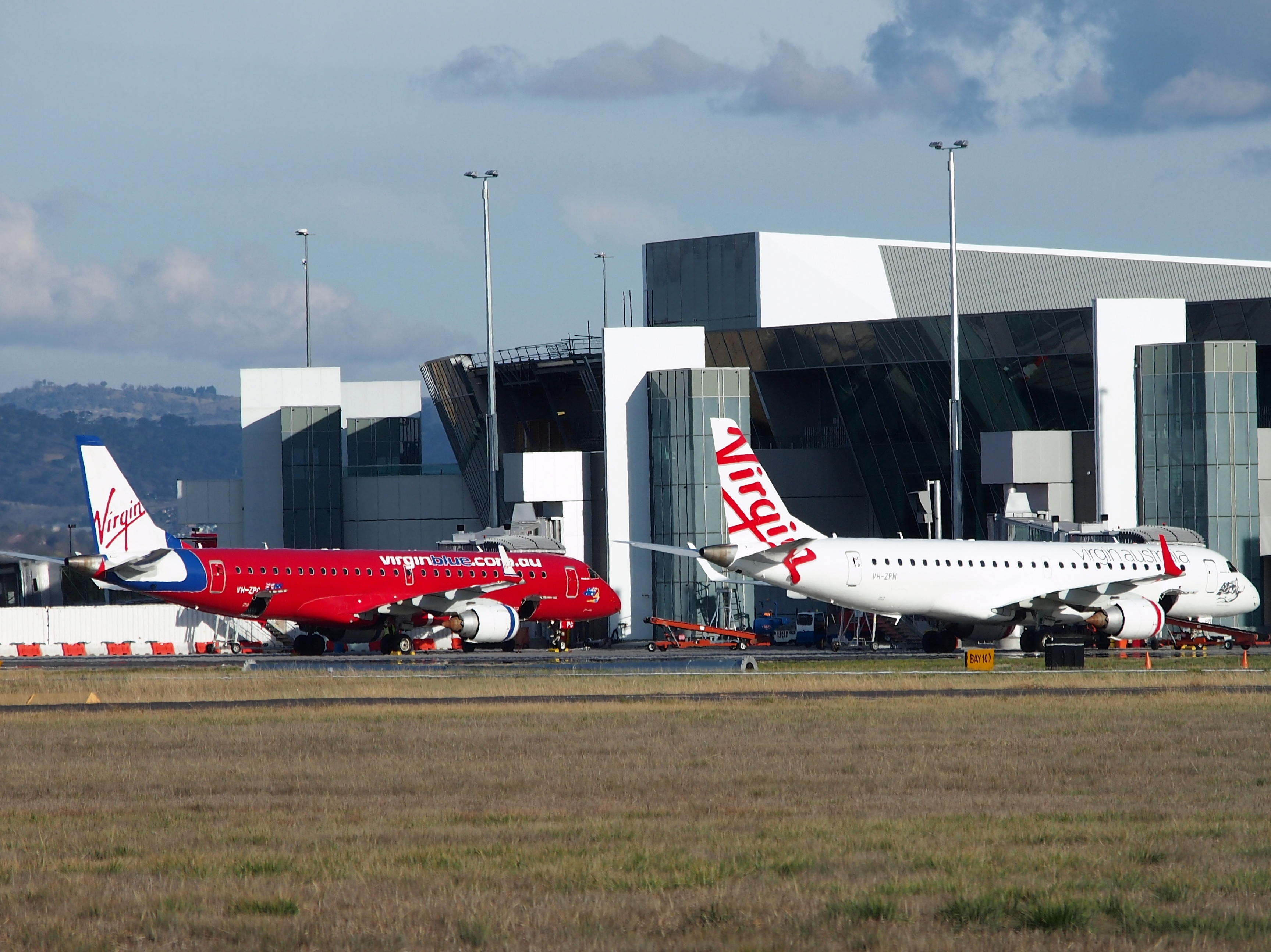 Two Virgin Australia Embraer 190s at Canberra Airport